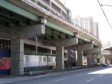 urban seismic risk - elevated road